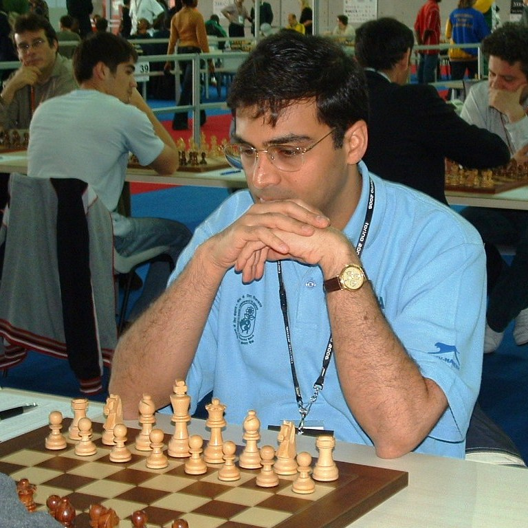 Photo of current chess world champion Viswanathan Anand taken by me at Turin 2006 chess olympiad.